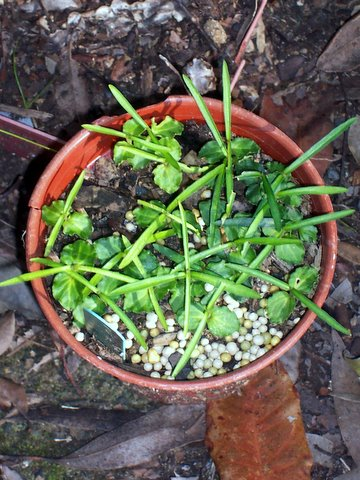 Atractocarpus chartaceus, seedlings. Fruit identified by the botanist A.G. Floyd. I found a couple of red fruits in the rainforest at Hayters Hill, near Byron Bay. Had no idea what they were. Drove south to Coffs Harbour Botanic gardens. Handed one of the fruit to the person at reception. Then a week later A.G. Floyd phoned me and identified them. He kept one seed pod, me the other. The seeds from my seed pod grew very well. Presumably his also grew well and now are in the botanic gardens at Coffs Harbour